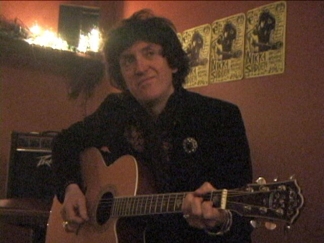 Nikki Sudden at his penultimate show - Cake Shop NYC March 24, en:2006 as detailed in PUNKCAST#940 I took this photo and release it for wikipedia use under the GFDL. Wwwhatsup 00:33, 27 February 2007 (UTC)